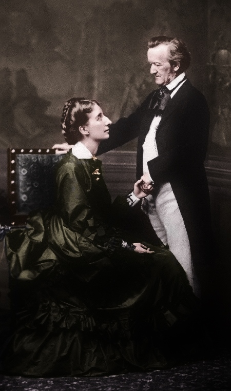 Richard Wagner and Cosima Wagner